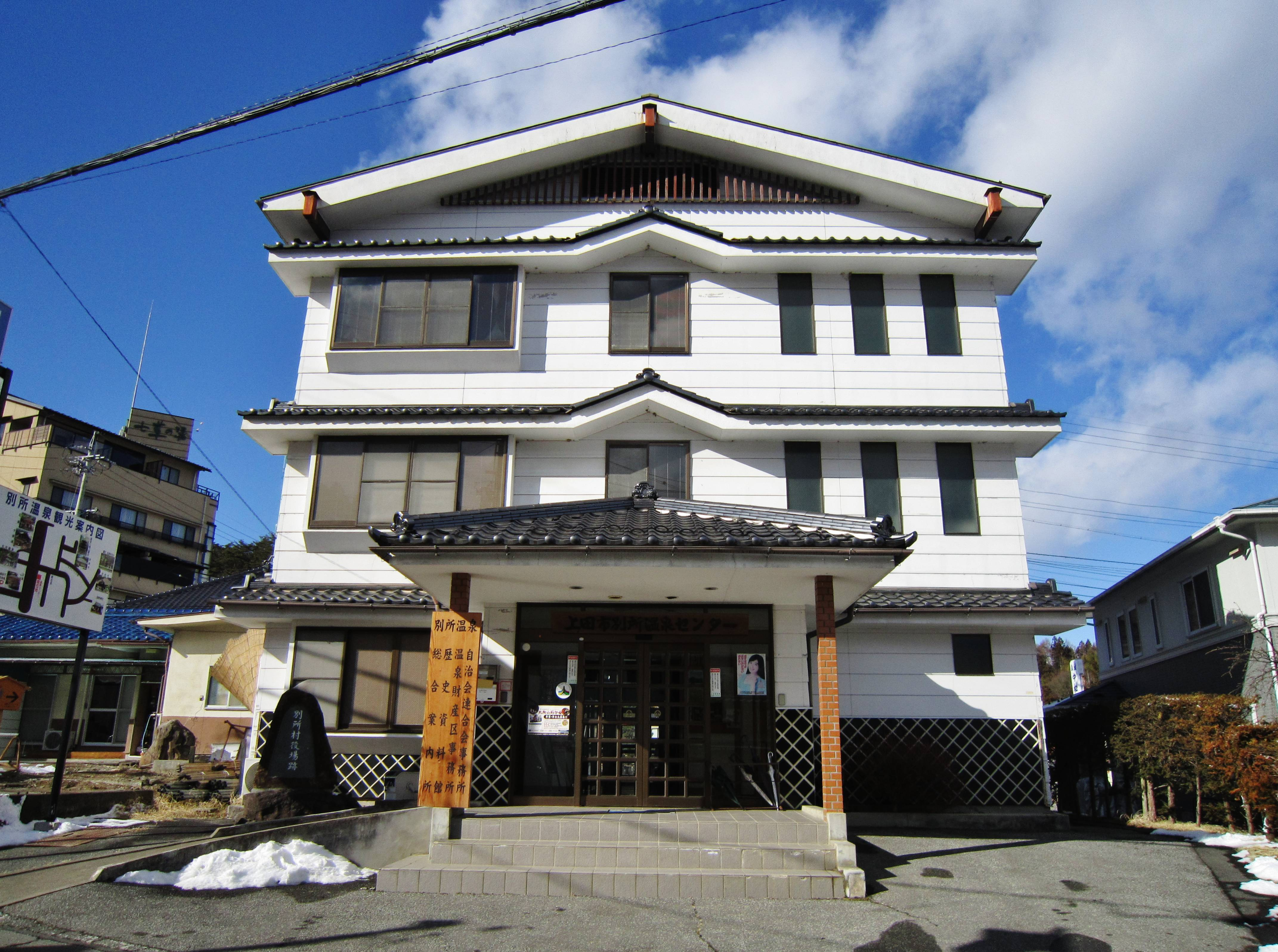 Bessho Onsen center.